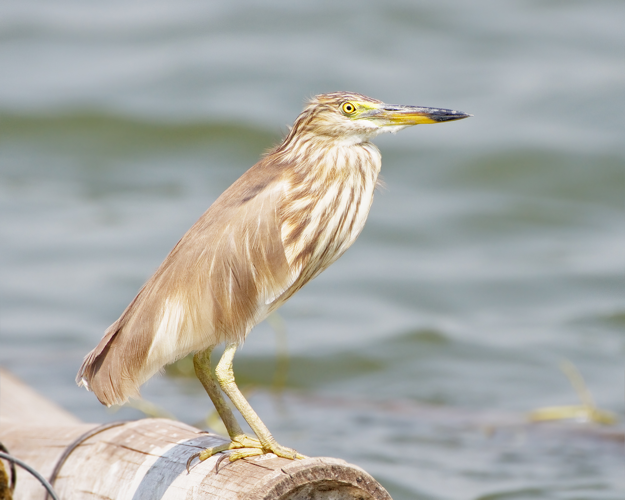 Chinese Pond Heron (Ardeola bacchus), Laem Phak Bia, Ban Laem, Phetchaburi, Thailand